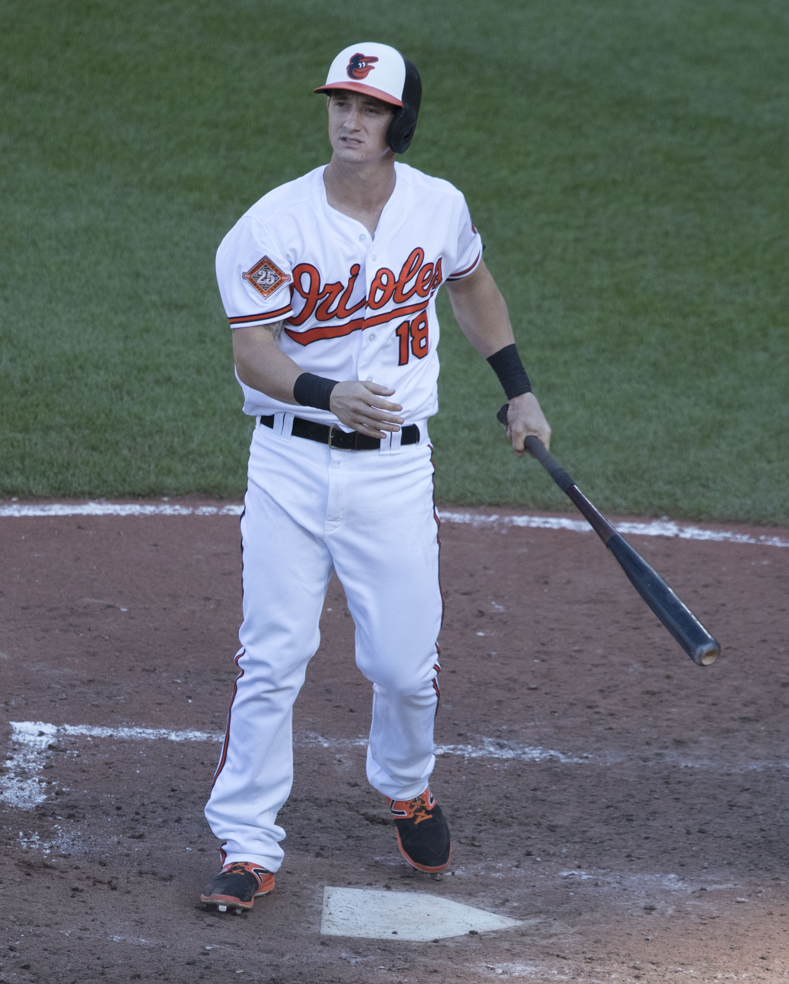 Austin Hays of the Baltimore Orioles in 2017.